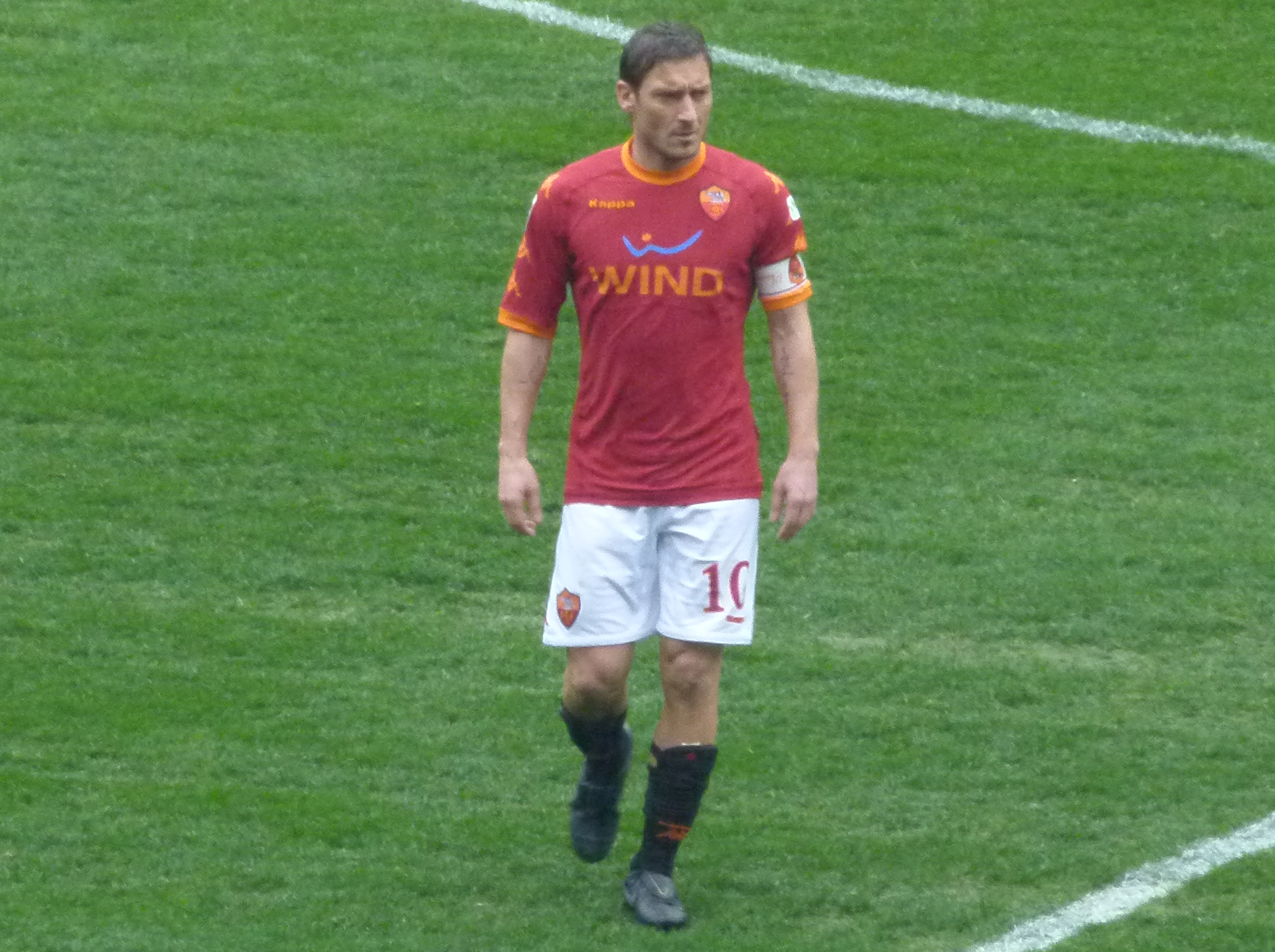 Francesco Totti in Rome Derby (13 MAR 2011)